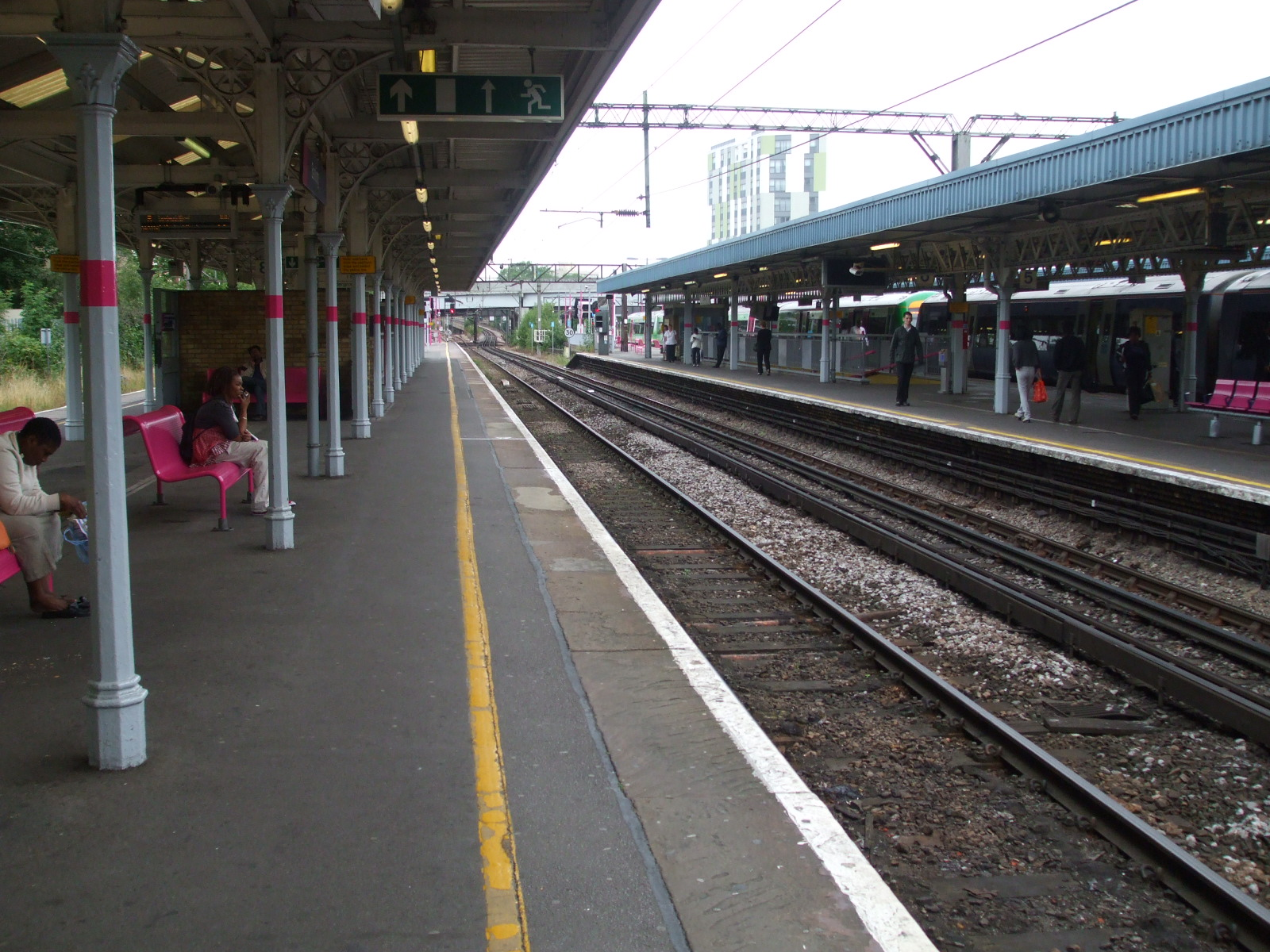 Barking station platform 7 (c2c Grays service eastbound) looking west, with westbound District line platform 6 on the right.